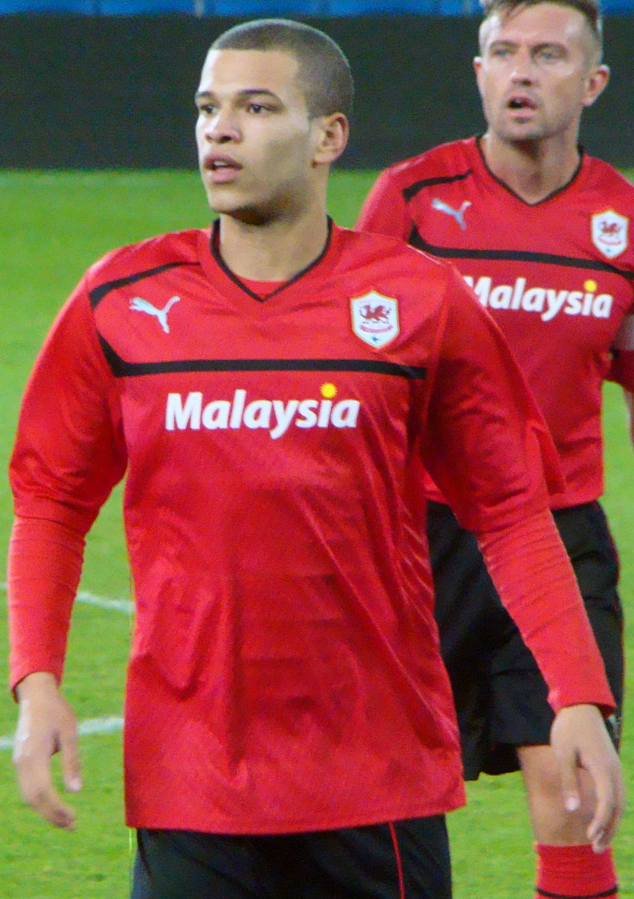 Theo Wharton playing for Cardiff City U-21 squad.